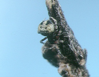 female Theridula iriomotensis from Okinawa.